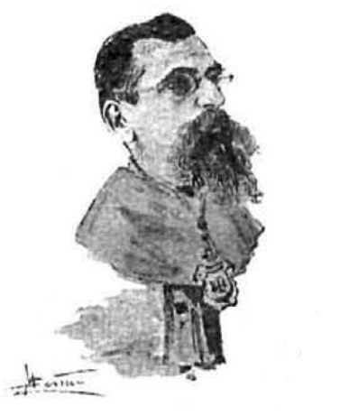 Josep Balari i Jovany, in Barcelona cómica magazine of 23.5.1894